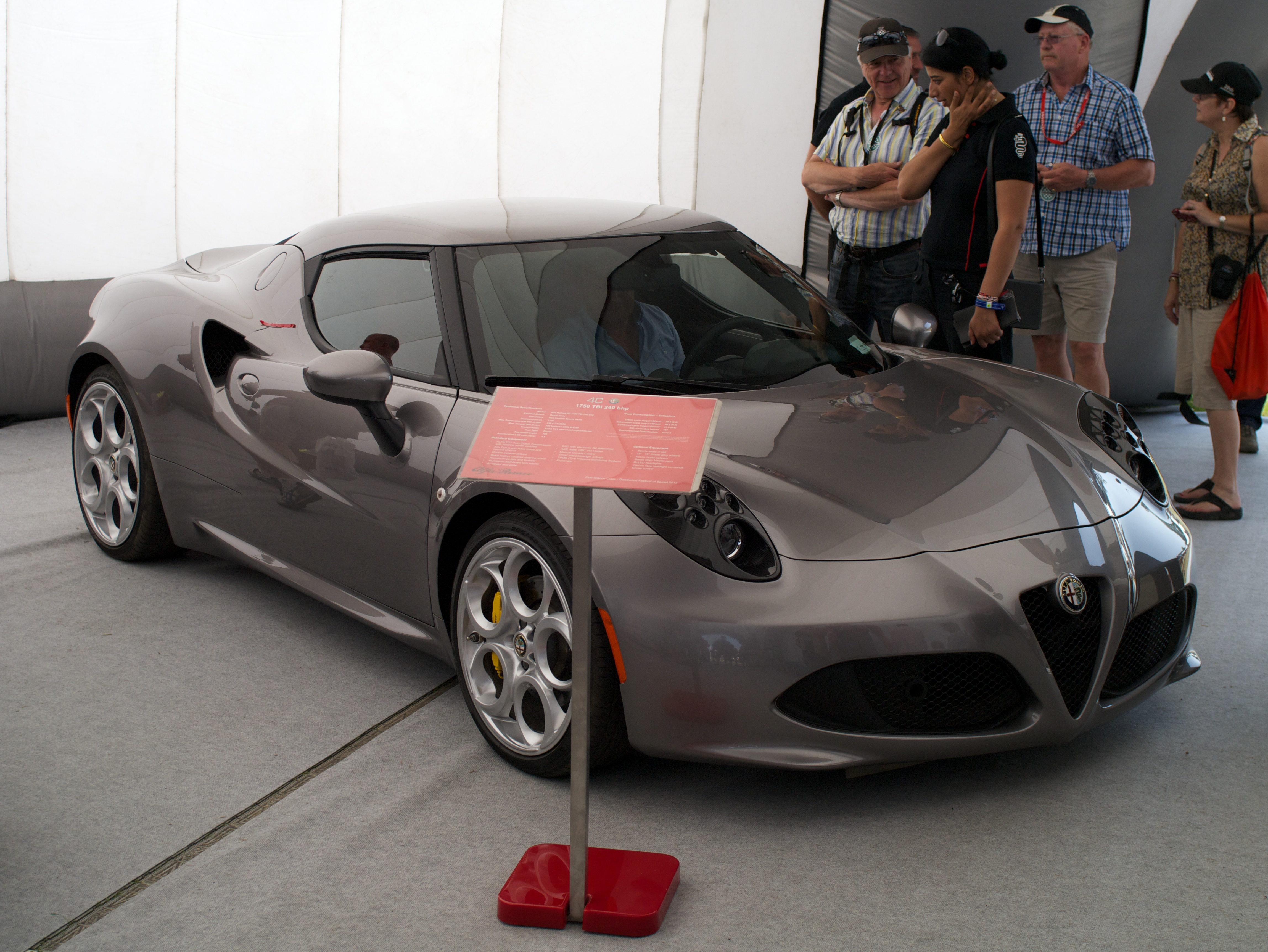 Un'Alfa Romeo 4C alla Goodwood House nel 2013